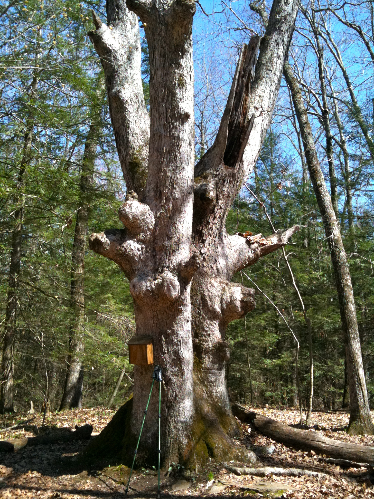 Lillinonah Trail. Blue-Blazed CFPA foot path which circles the upper Paugussett State Forest (and Lake Lillinonah/Housatonic River) in Newtown, CT. Great Oak with vistor's guestbook. Lillinonah Trail. Blue-Blazed CFPA foot path which circles the upper Paugussett State Forest (and Lake Lillinonah/Housatonic River) in Newtown, CT.